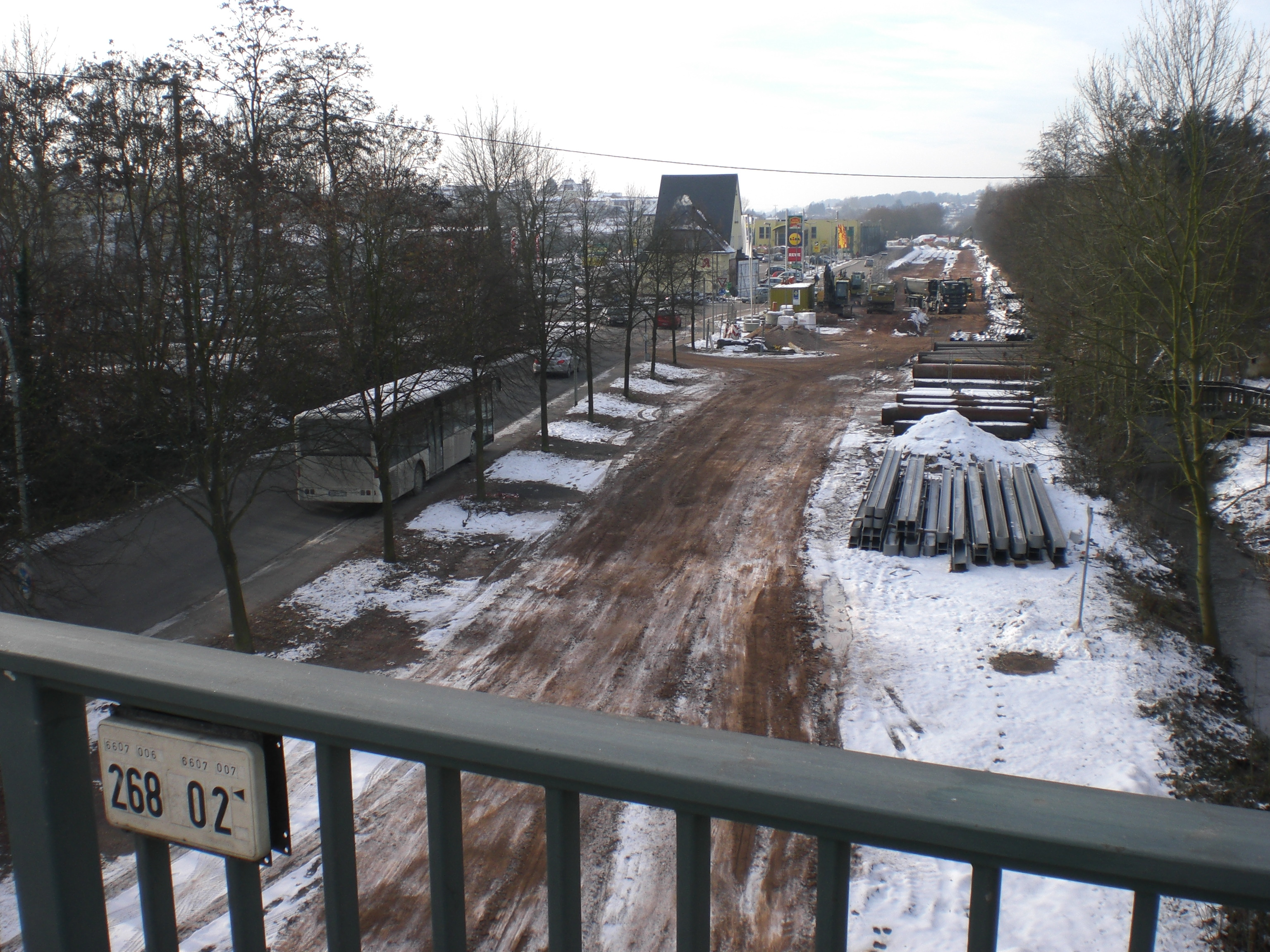 Staion Heusweiler